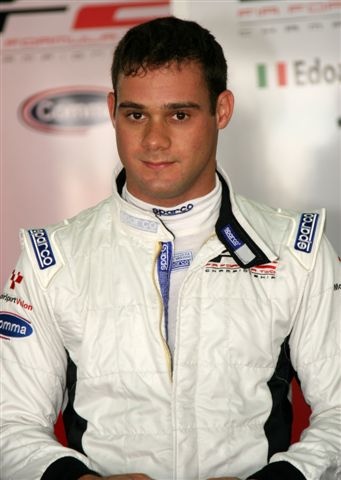 Picture of Brazilian race car driver Carlos Iaconelli.